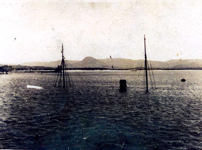 Comboyne underwater in Wollongong Harbour